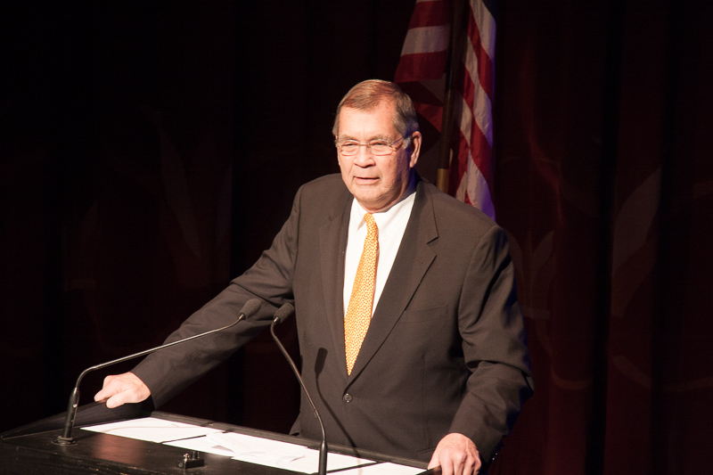 Greg Lashutka, 51st Mayor of Columbus, Ohio (1992-2000), speaks at the community swearing-in ceremony of Andrew Ginther, 53rd Mayor of Columbus, on January 13, 2016.